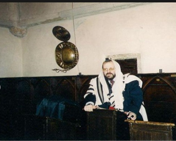 Rabbi Ahron Daum at the StaroNové Synagogue, Prague.